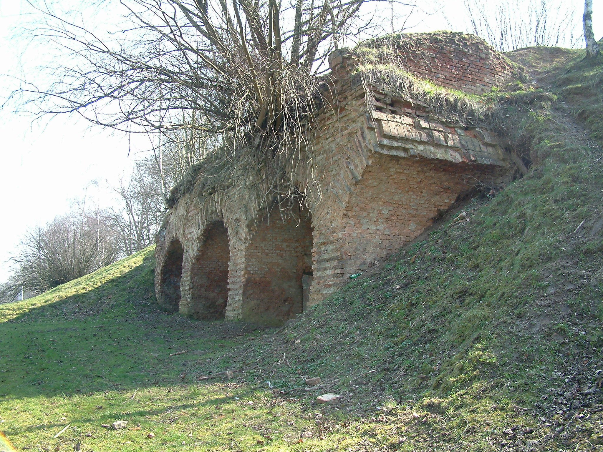 Ruins of Bastion I of Fort Winiary in Stronghold Poznań